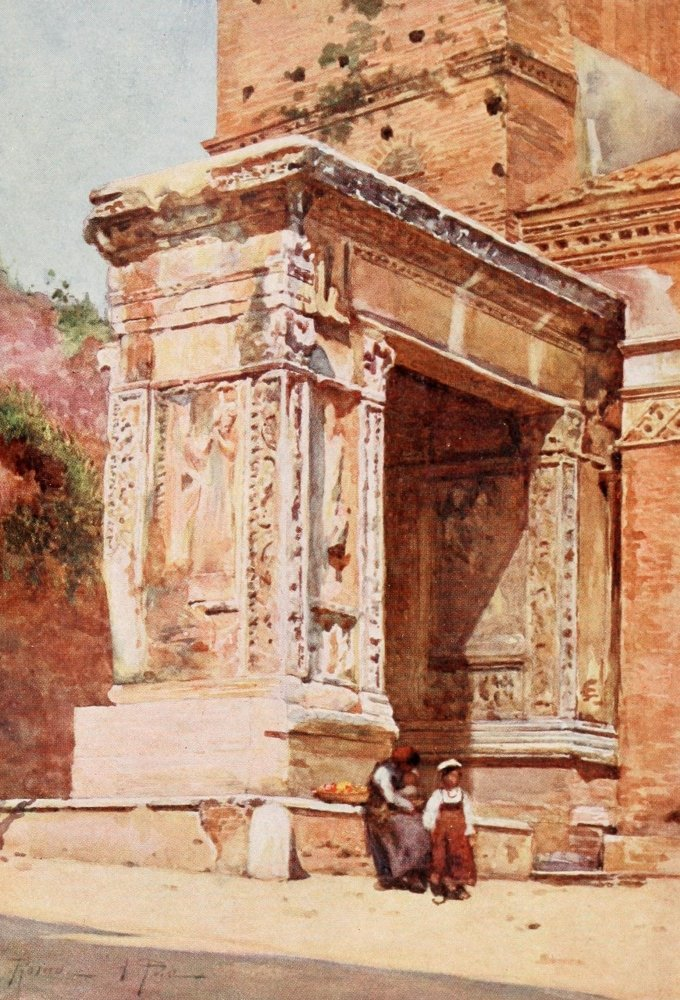 Arco degli Argentari by Alberto Pisa (1905)